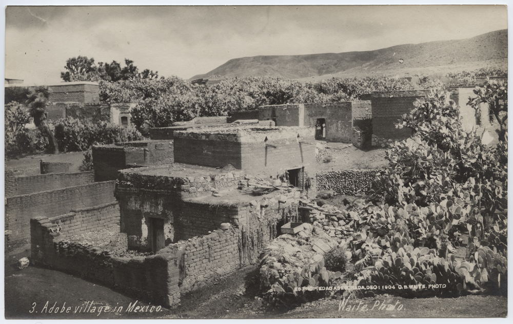 Title: Adobe village in Mexico Creator: Waite, C. B. (Charles Betts), 1861-1927 Date: 1904 Part Of: Mexico Place: Mexico Physical Description: 1 photographic print: gelatin silver; 20.2 x 12.6 cm File: ag1983_0281_0003_adobe_opt.jpg Rights: Please cite DeGolyer Library, Southern Methodist University when using this file. A high-resolution version of this file may be obtained for a fee. For details see the web page. For other information, . For more information and to view the image in high resolution, see: View the Mexico: Photographs, Manuscripts, and Imprints Collection